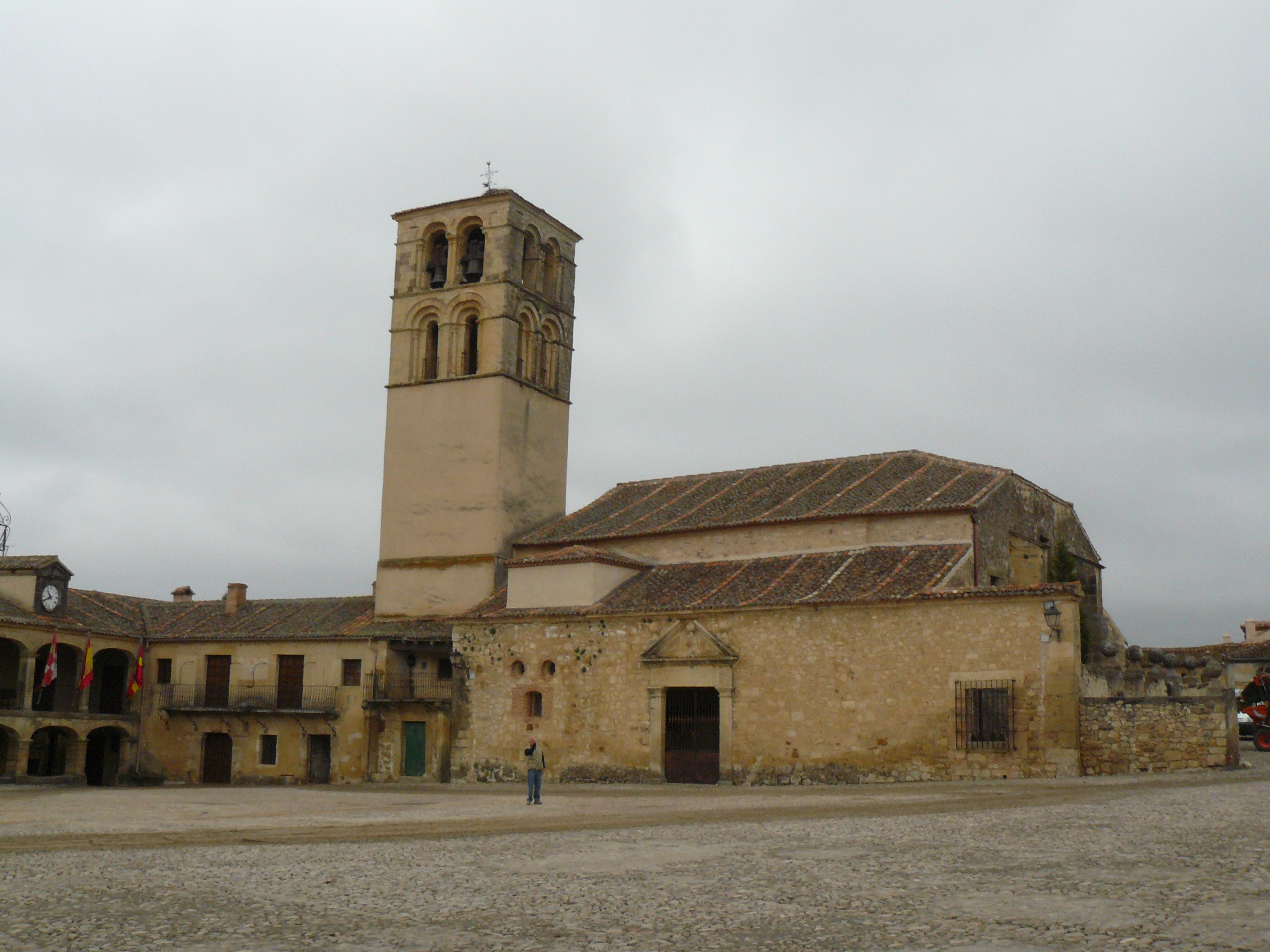 Church of San Juan bautista (St. John the Baptist), Pedraza, Segovia (Spain)